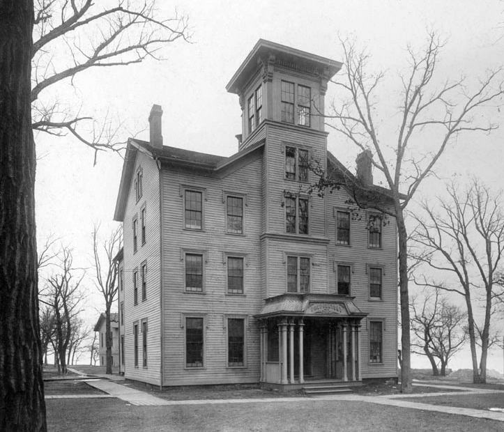 Old College in 1899, courtesy of Northwestern University Archives. Image found at [1]